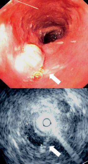 Endoscopy and radial endoscopic ultrasound images of submucosal tumour in mid-esophagus. Permission obtained from patient to release into public domain -- Samir ???? 08:45, 25 July 2006 (UTC)